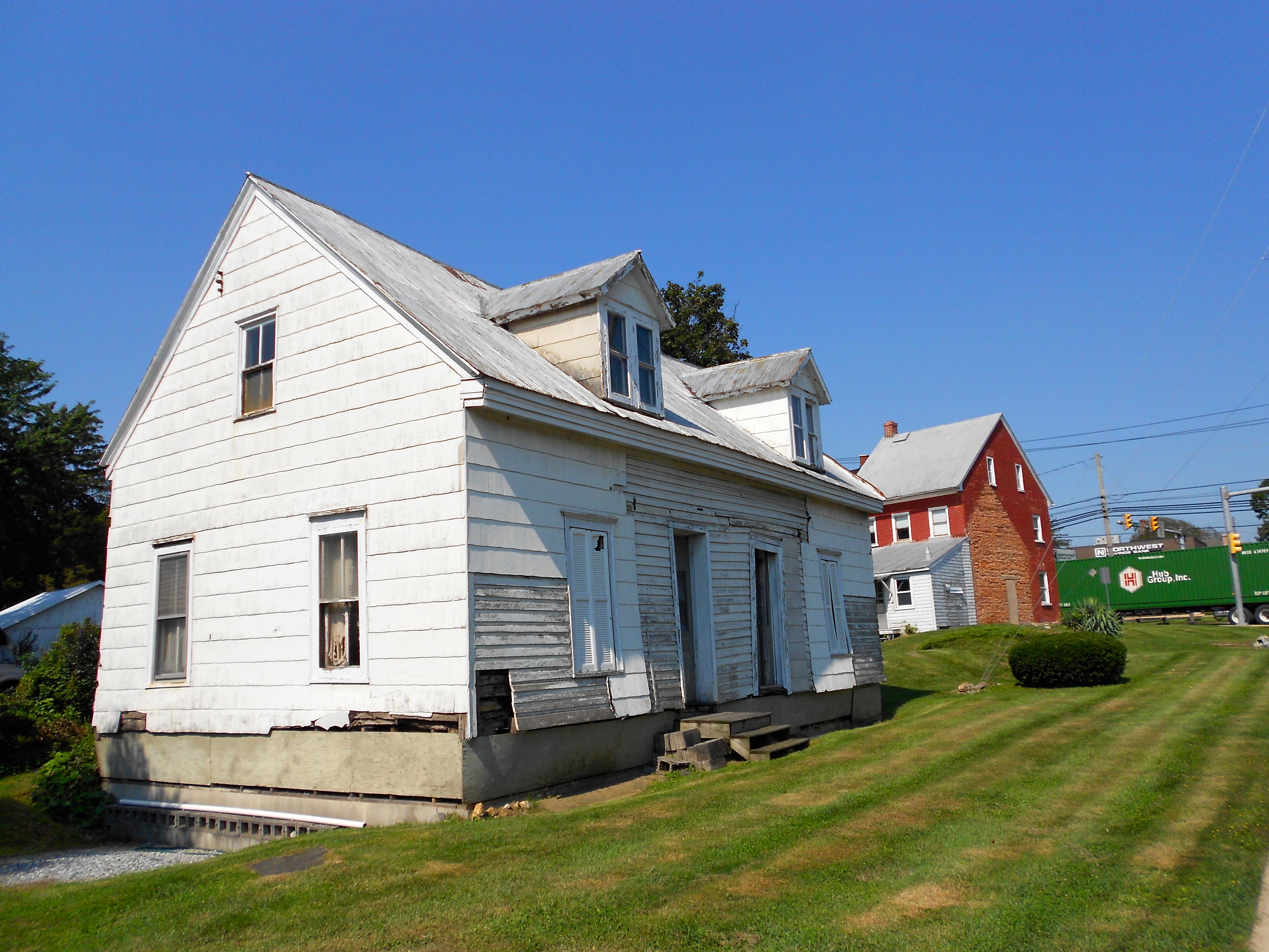 John Casper Stoever Log House House has been moved about 40 ft south and turned 90 degrees